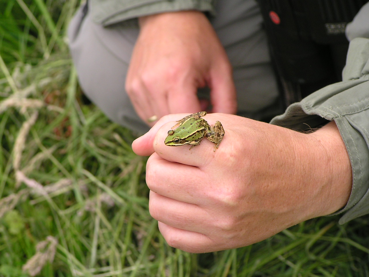 Young specimen of Pelophylax ridibundus, found in the Netherlands.